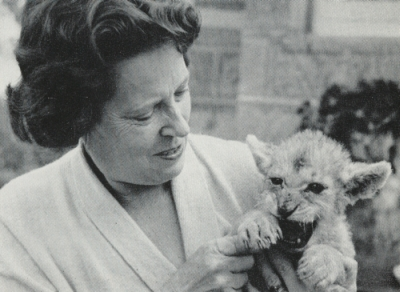 Irene Grindlay and baby Mara. This photograph was taken in Africa by Douglas Grindlay, 1965; both subjects and author are deceased.